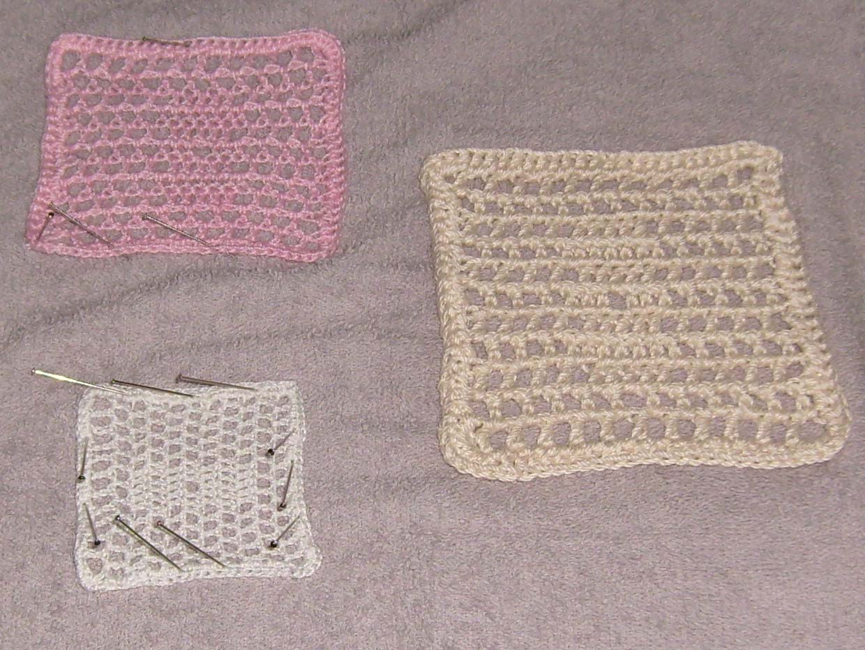 A demonstration of crochet blocking. Some items are pinned to a towel to achieve the desired shape while they dry.